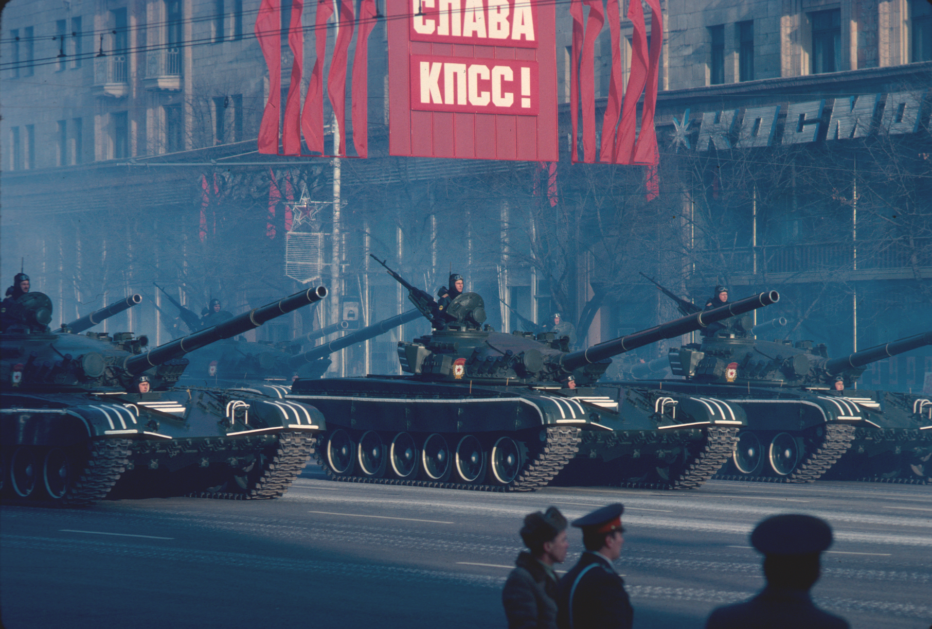 This file is a scan from the original 35 mm Kodachrome slide (positive). Previous version was a scan of an 8x10 print made from this slide. This scan made by a Nikon LS_2000 negative scanner.